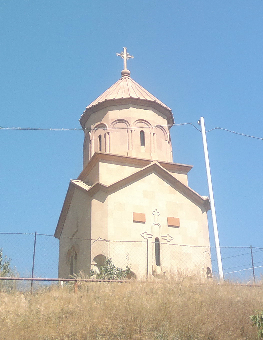 Surb Sargis church in Gyumri